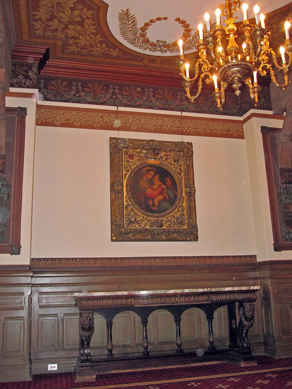 Hallway in the Healy Hall at Georgetown University